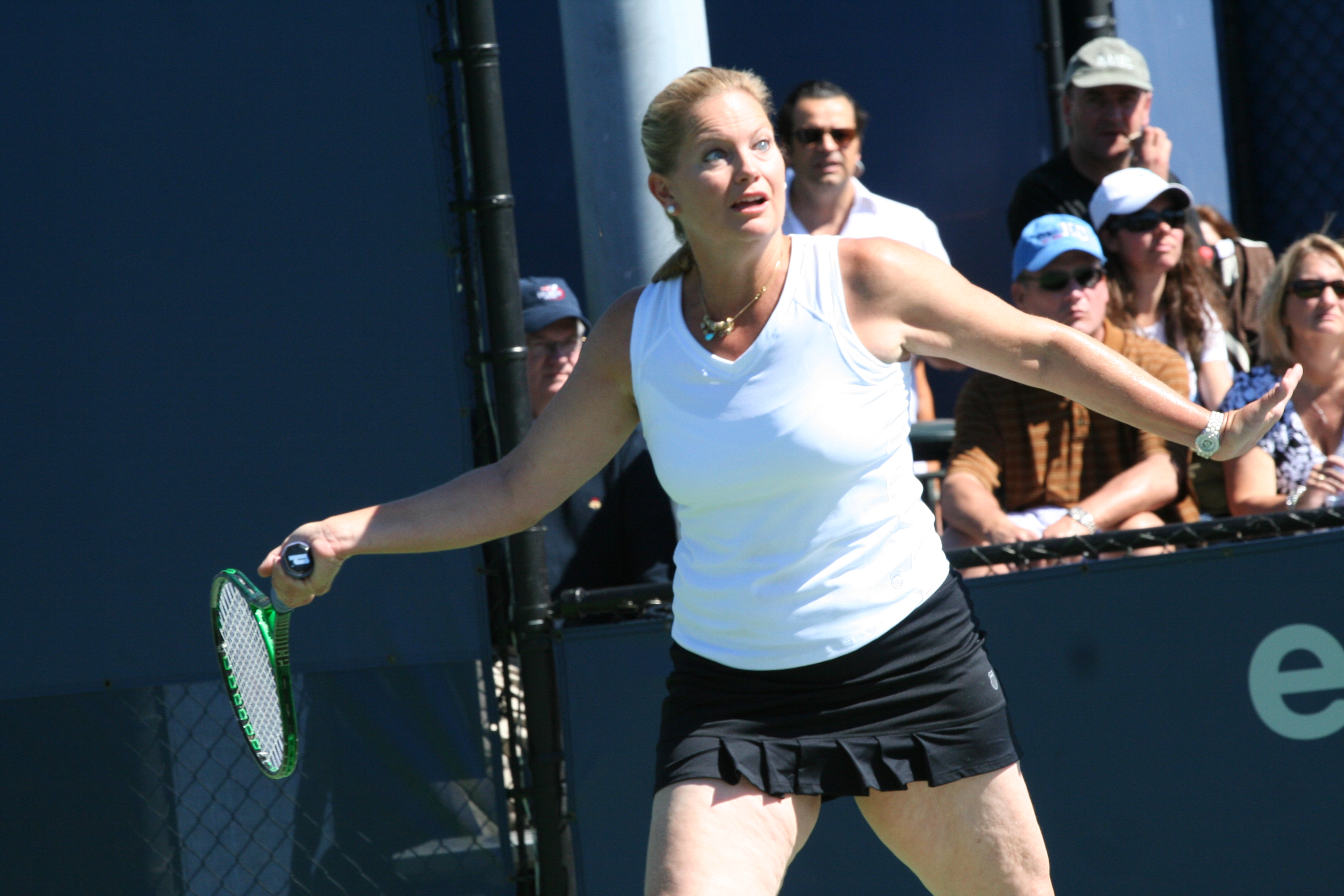 U.S. Open Champions Team Tennis Sept. 11, 2010